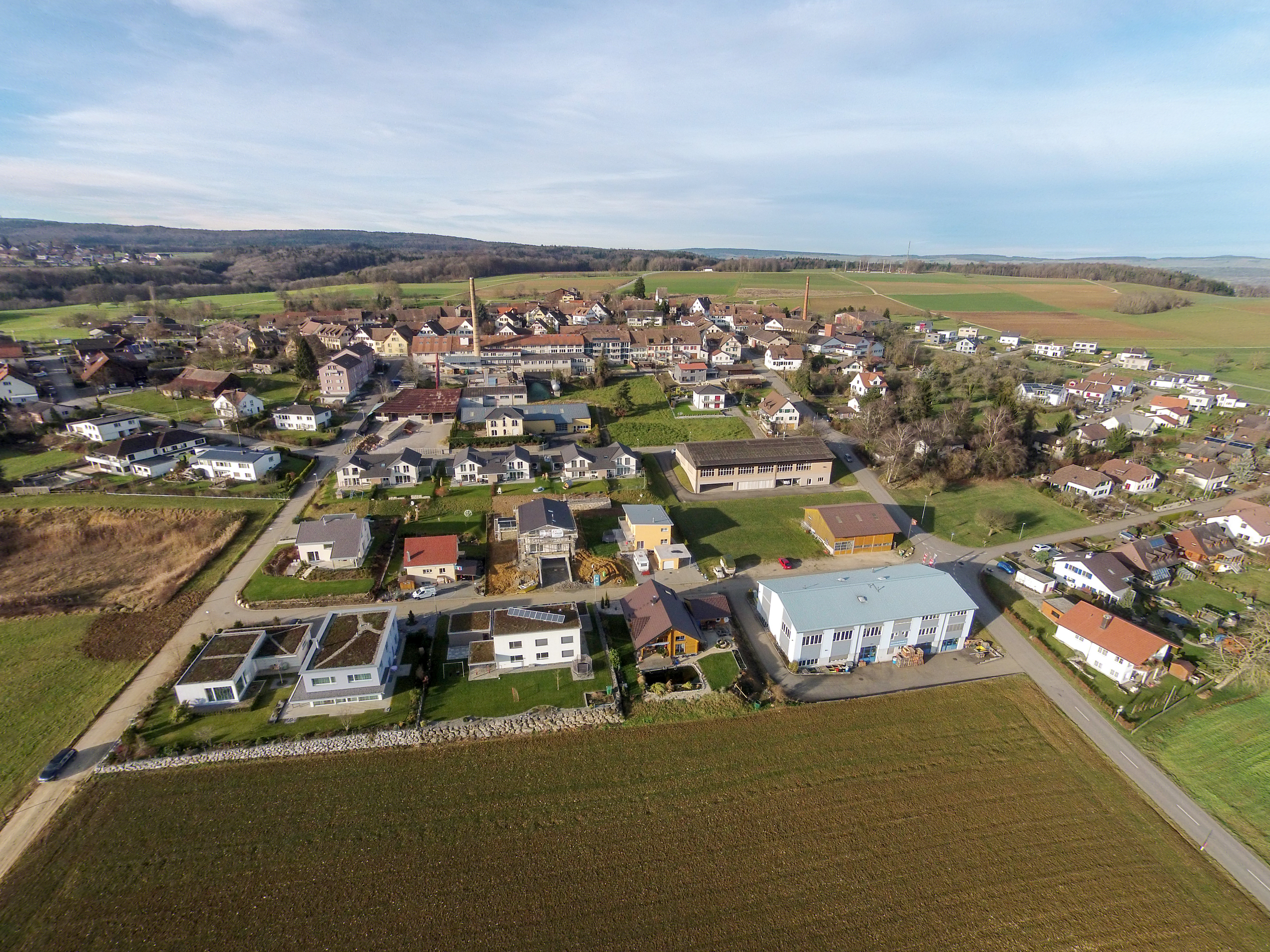 Switzerland, Canton of Schaffhausen, QC aerial picture of Lohn